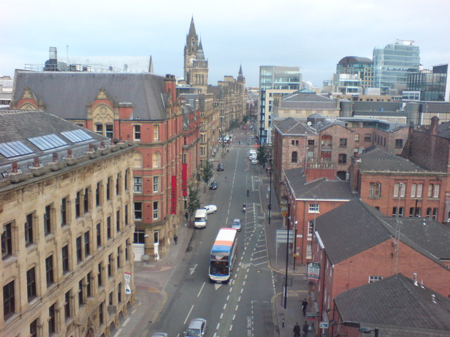 View along Princess Street, Manchester Picture taken at junction with Portland Street.